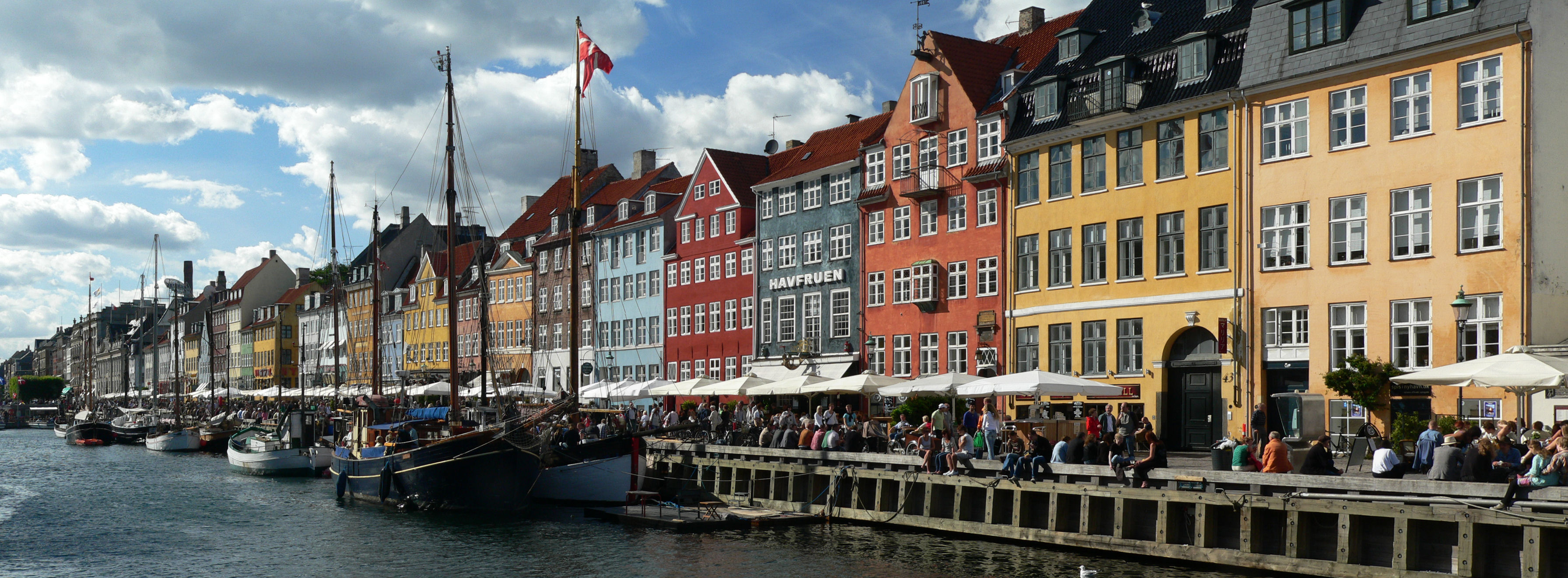 Nyhavn - a canal in Copenhagen.